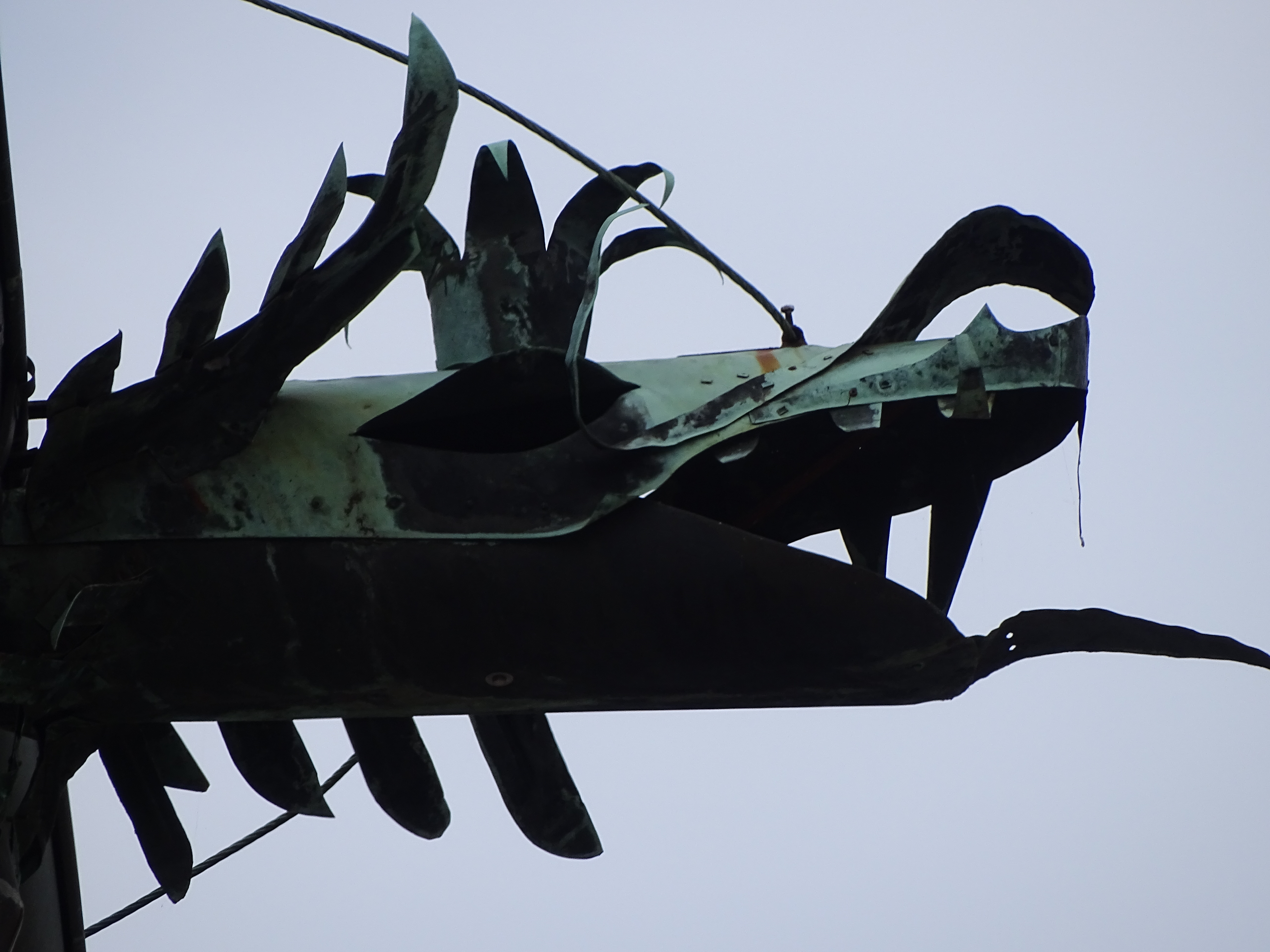 Old County in Celje, today Pokrajinski muzej